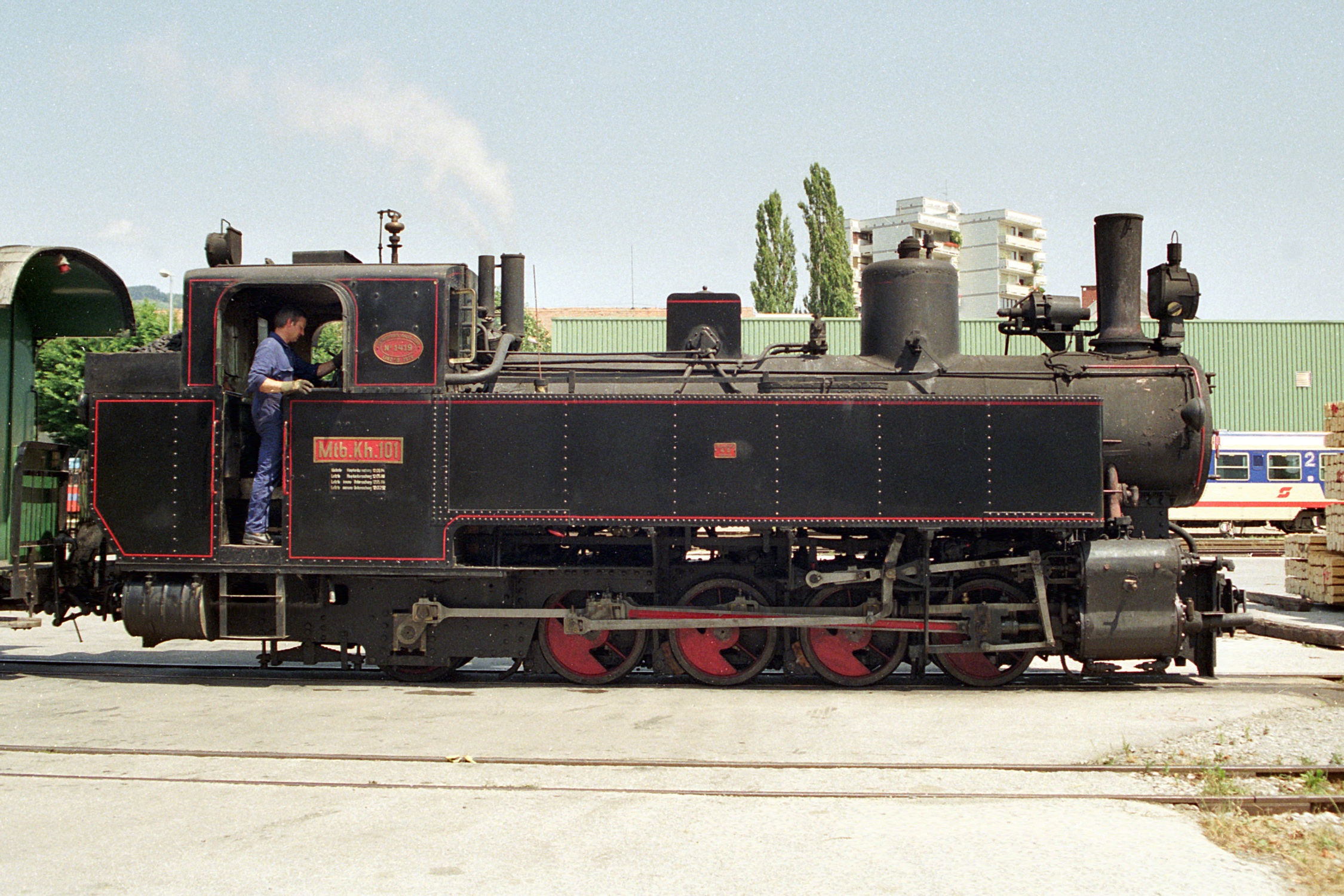 Narrow gauge steam locomotive Kh.101 in Weiz station on the Feistritztalbahn, Styria